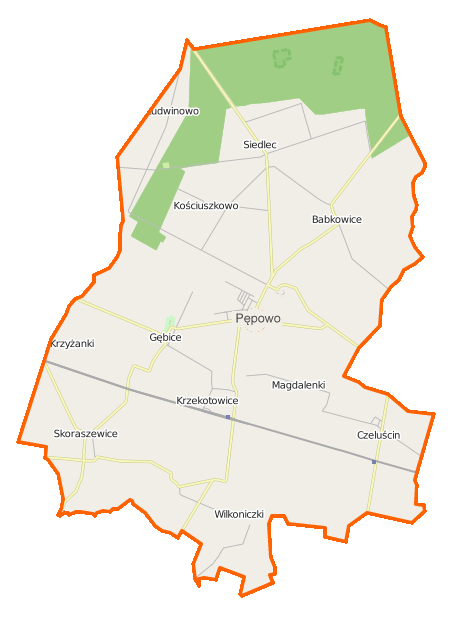 Map of Gmina Pępowo, Poland This map of Pępowo (gmina) was created from OpenStreetMap project data, collected by the community. This map may be incomplete, and may contain errors. Don't rely solely on it for navigation. Border coordinates51.825817.0346←↕→17.190551.6938